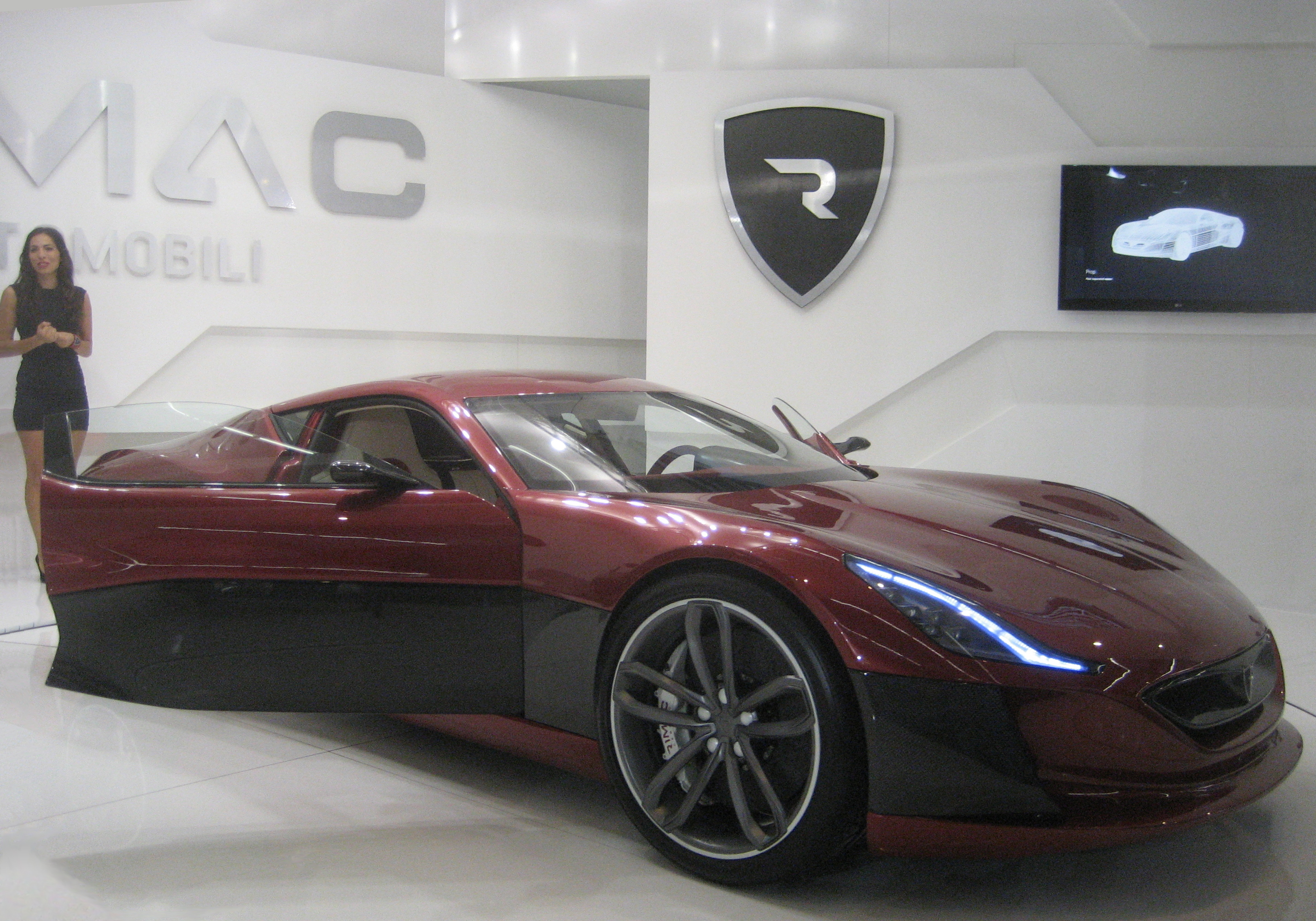 Battery powered automobile Rimac Concept One on IAA 2011, Frankfurt, Germany